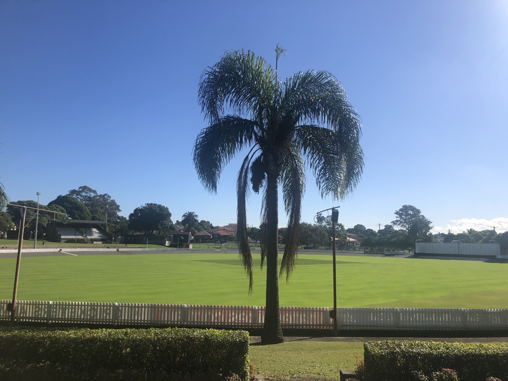 View of Hurstville Oval from the side